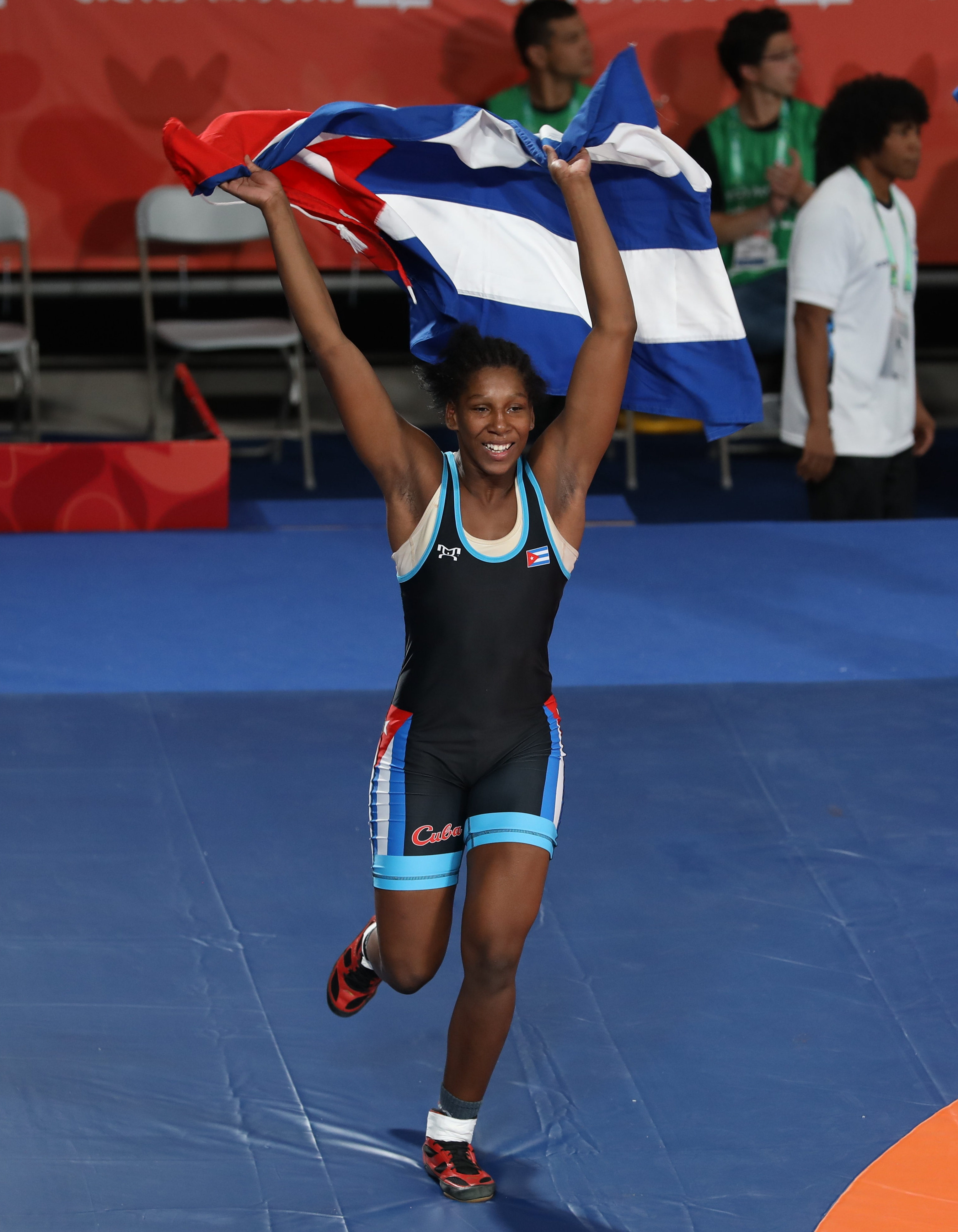 Wrestling, Freestyle, 65 kg female: Gold medal match/Final